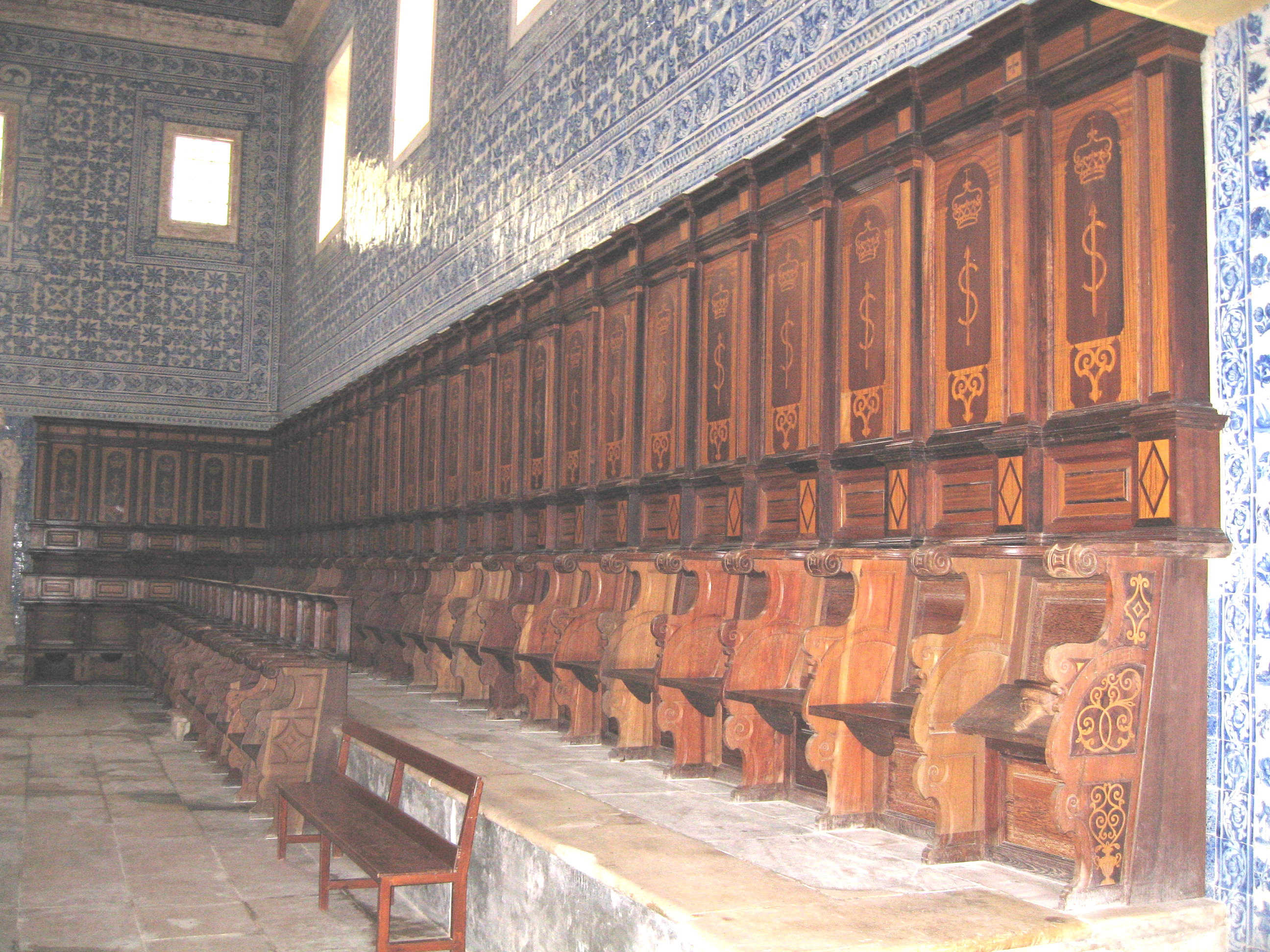 Alcobaça, Portugal, Monastery of Cos, church, choir stalls, 18th century